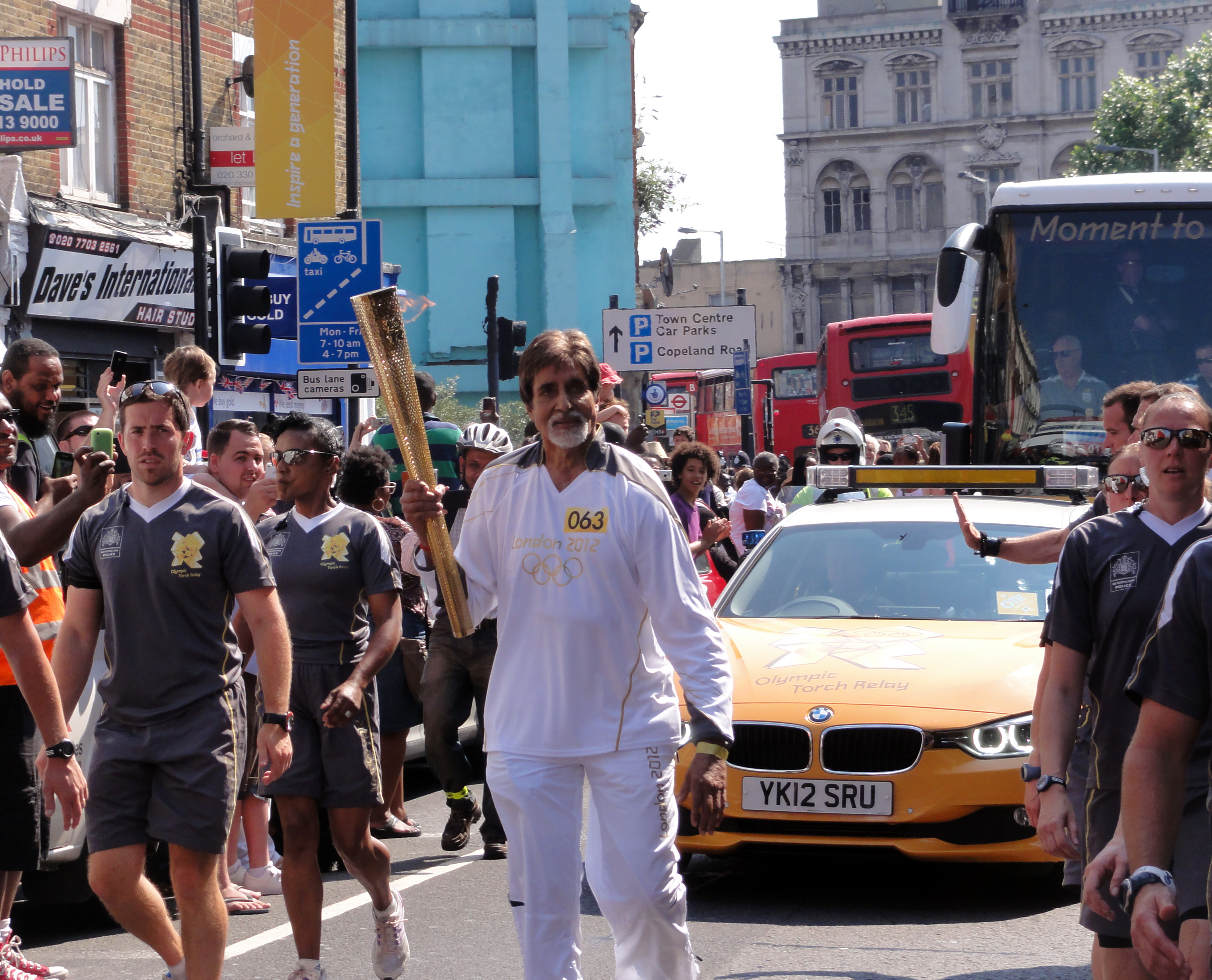 Taken just beyond Peckham Library as part of the Olympic torch relay. See BBC article